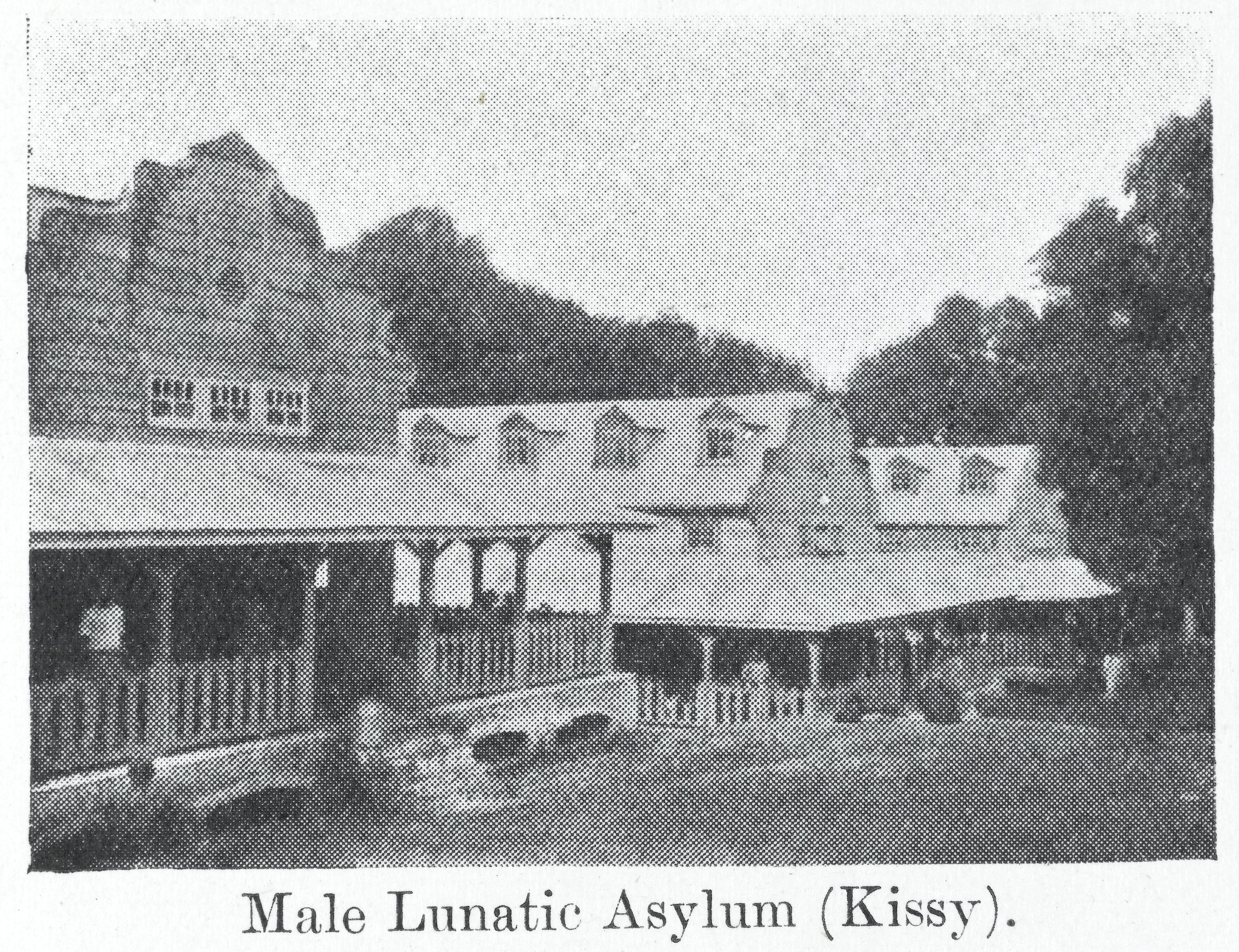 Photograph of a Male Lunatic Asylum at Kissy, Sierra Leone General Collections Keywords: Mental illness; Health Services Administration; Public Health Administration; Sanitation